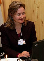 Rebecca MacKinnon blogging. DAVOS/SWITZERLAND, 27JAN05 - Rebecca MacKinnon, Berkman Fellow, Harvard University, USA and James R. Fruchterman, President and Chief Executive Offficer[sic], the Benetech Initiative, USA, captured during the session 'Welcome to the Blogopolis' at the Annual Meeting 2005 of the World Economic Forum in Davos, Switzerland, January 27, 2005. Copyright by World Economic Forum by E.T. Studhalter